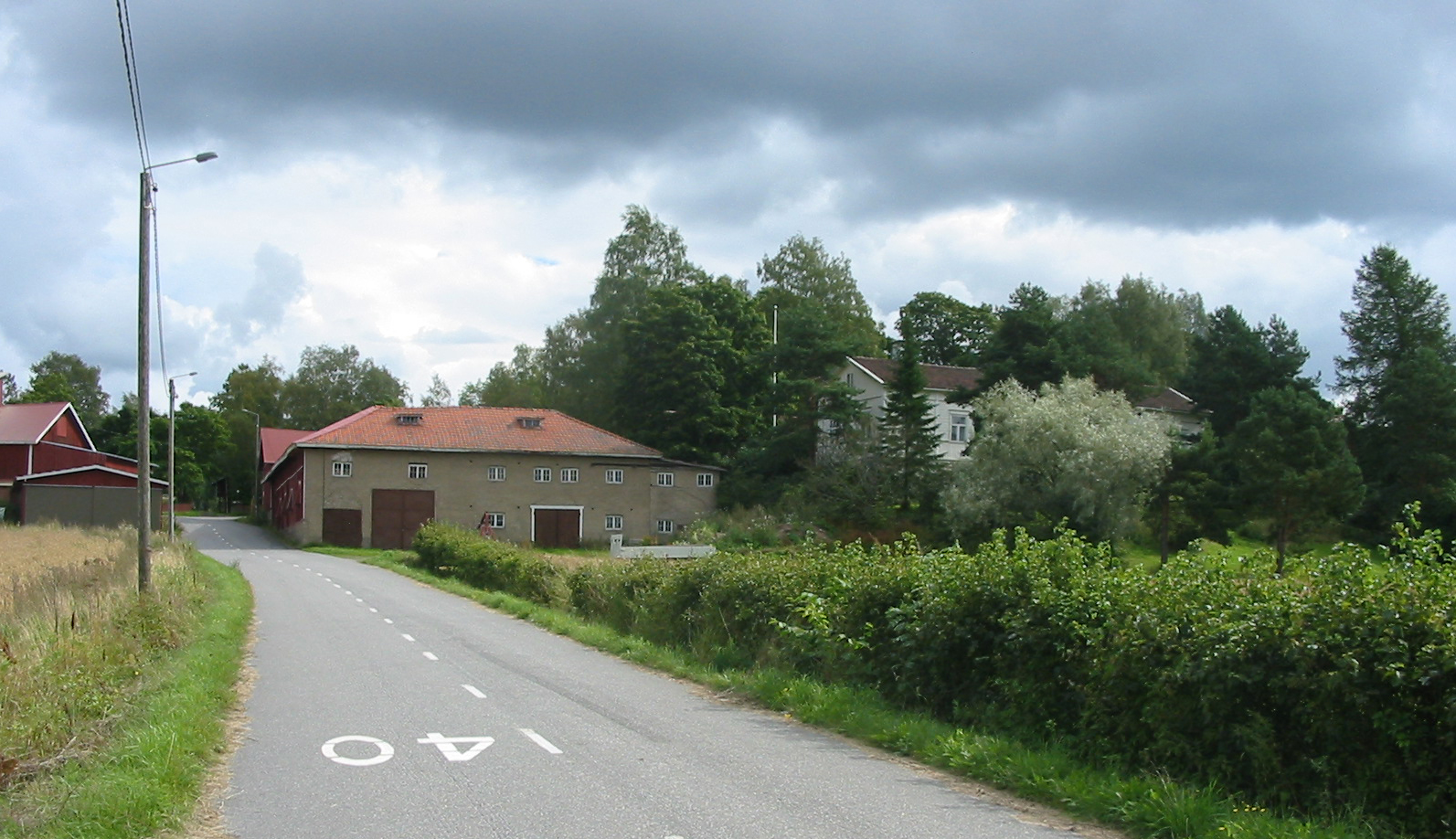 Halisten kylämäki in Halinen, Turku, Finland Proper, Finland, seen from the direction Halistenkoski